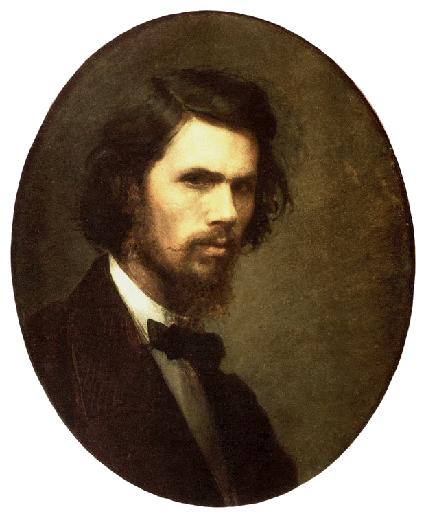 Ivan Nikolaevich Kramskoy. Self portrait.